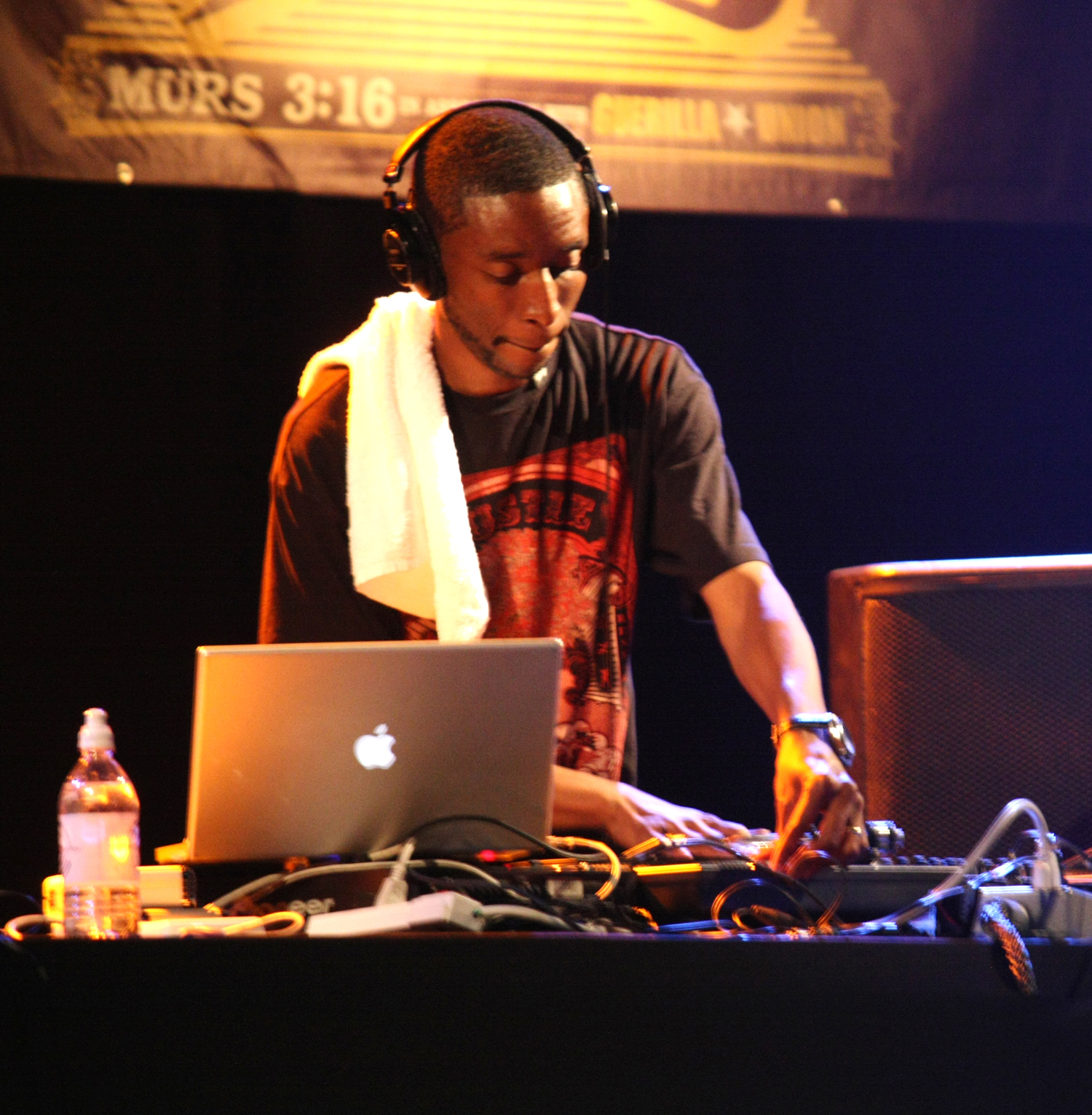 Resized and cropped version of Image:9thWonderAtPaidDues-2008.jpg